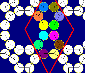 Uniform circle packings